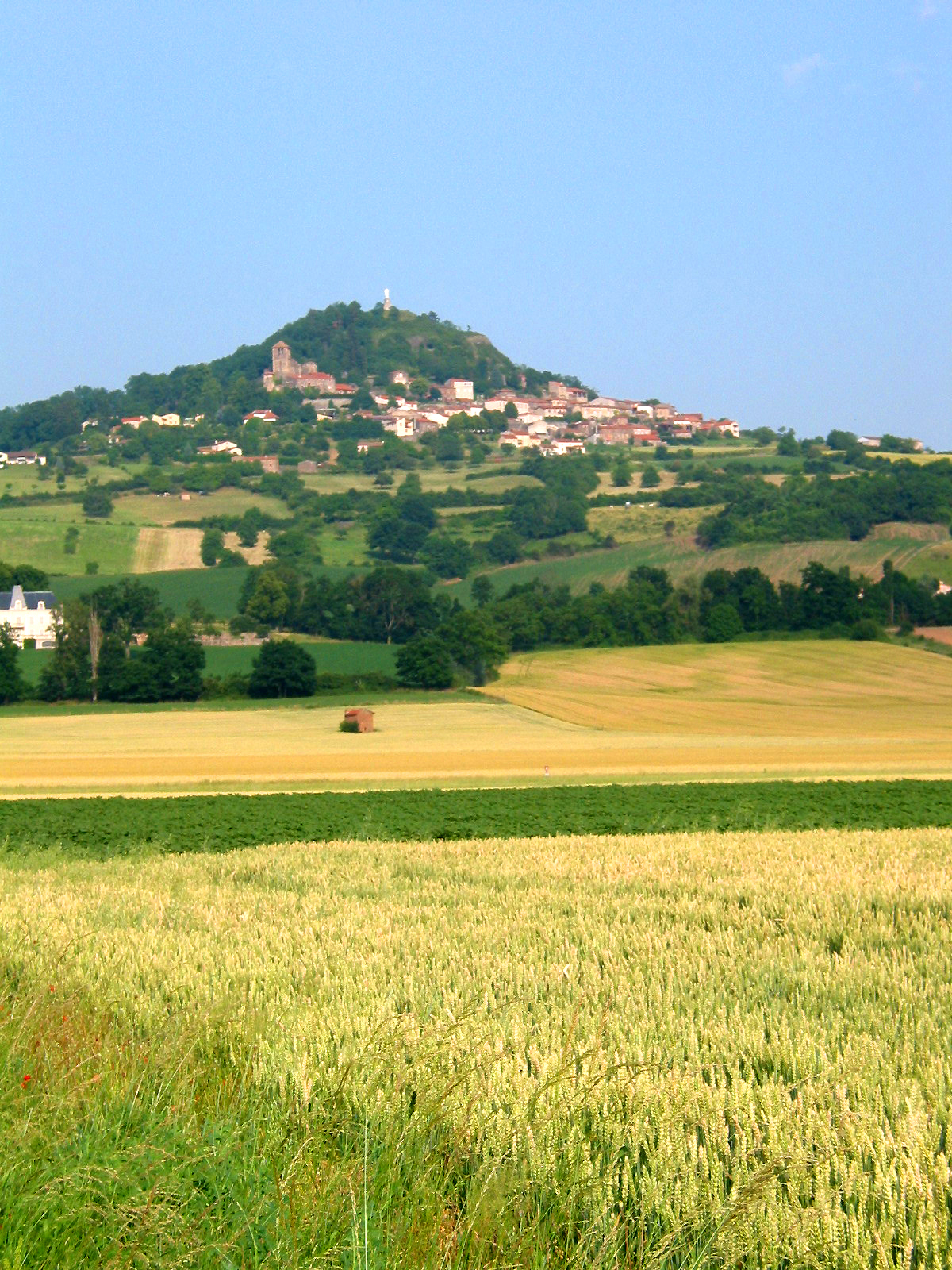 Usson, Puy-de-Dôme (France), the village perched on its volcanic mound.